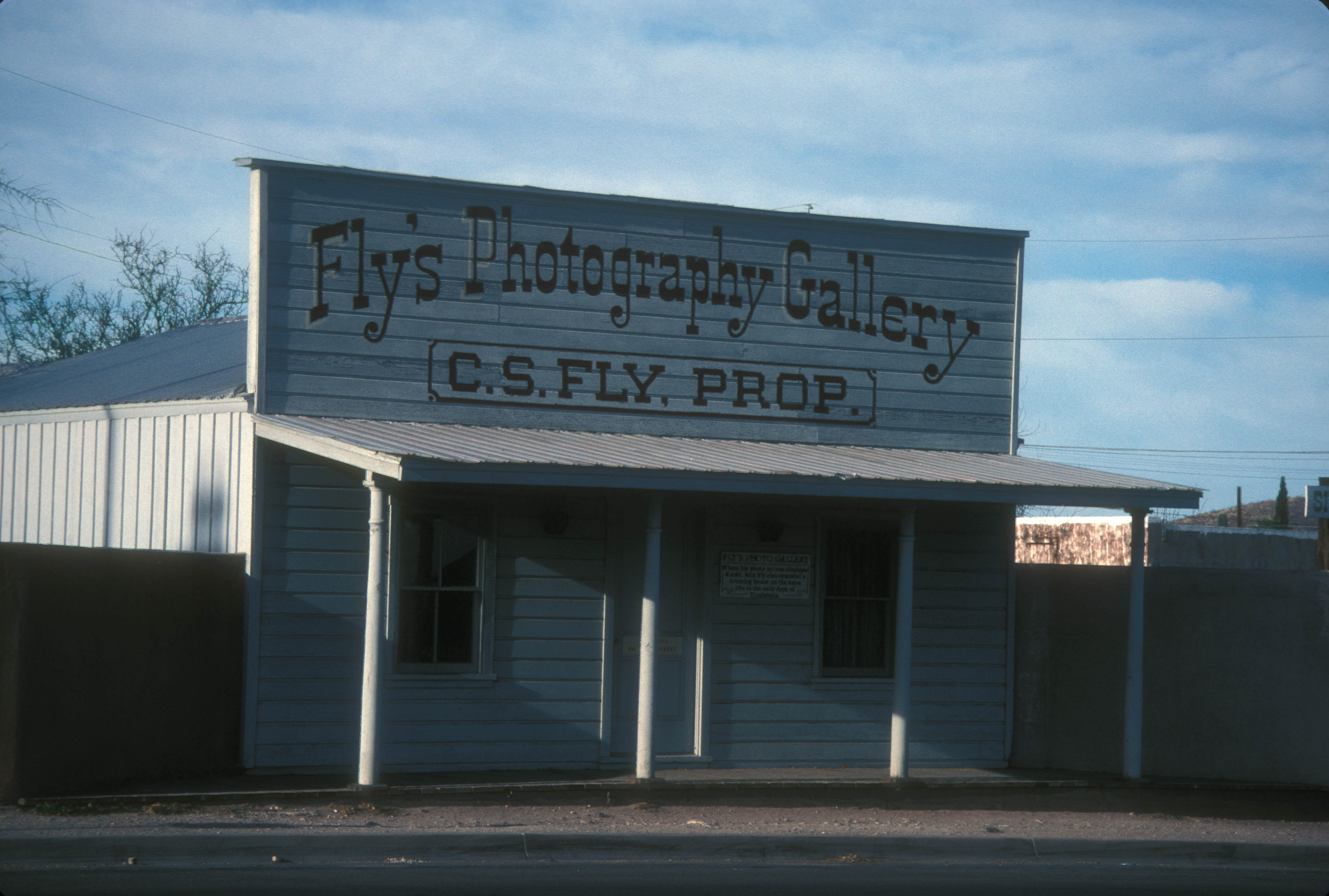 CAMILLUS FLY (C.S. Fly) DOCUMENTED MUCH OF WHAT WENT ON IN TOMBSTONE, Arizona IN THE 1880’S. THE FAMOUS GUNFIGHT ACTUALLY TOOK PLACE IN THE LOT NEXT TO HIS SHOP AND NOT AT THE OK CORRAL. AFTER FLY DIED HIS WIFE OPERATED THIS AS BOARDING HOUSE UNTIL 1912 WHEN IT BURNED BUT WAS LATER REBUILT